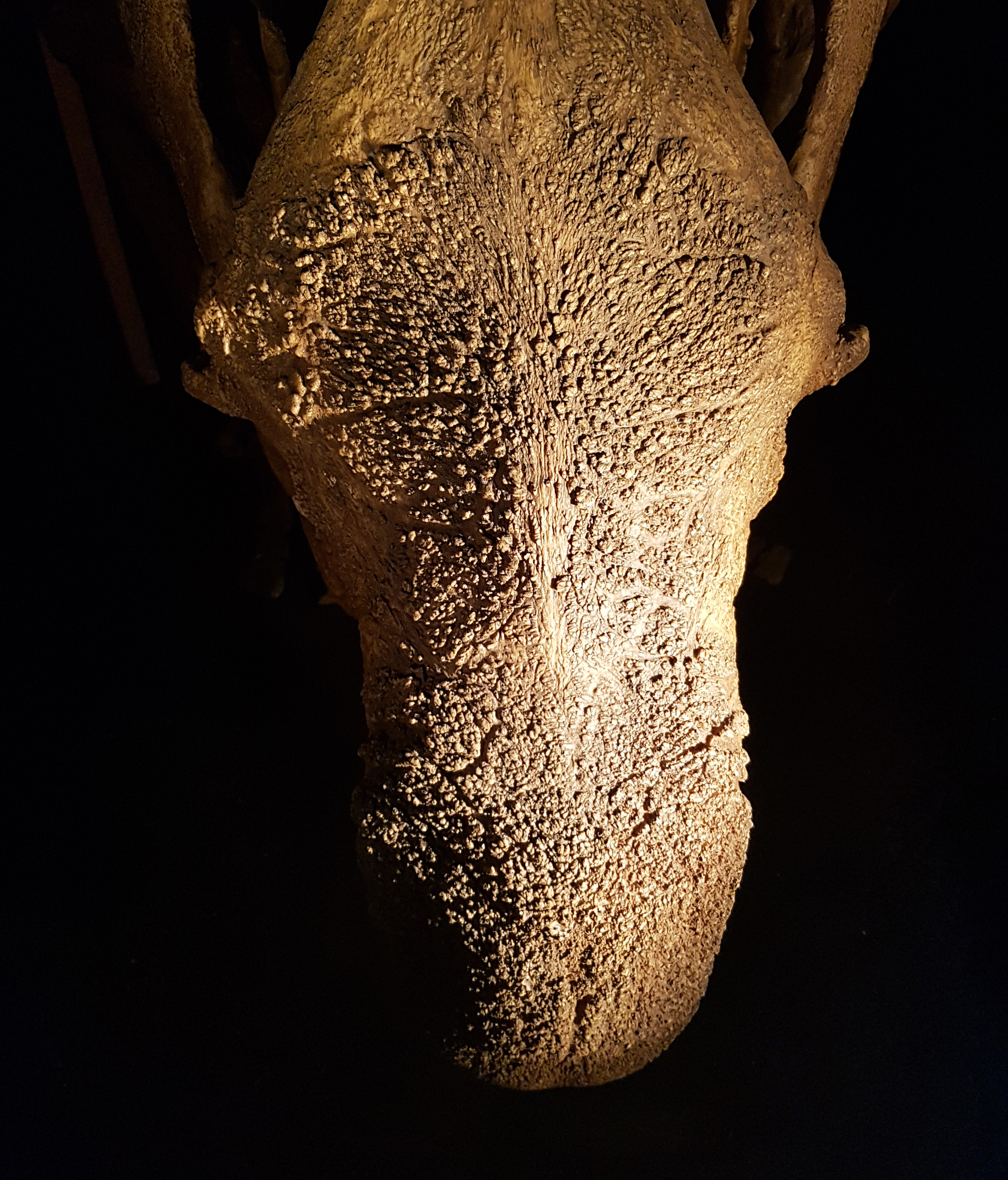 Skull of Stephanorhinus kirchbergensis, the cauliflower-like structures on the bony surface mark the attachment places of the nasal and frontal horn; Neumark-Nord, Geiseltal, Germany, Middle to Upper Pleistocene, pictured in the Landesmuseum für Vorgeschichte, Halle, Saxony-Anhalt